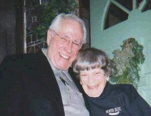 Mike Gravel (2008 Presidential Candidate) and Granny D Copyright released by Gravel2008 Presidential Campaign All photos of the Mike Gravel for President 2008 Campaign are used with permission from the Mike Gravel for President 2008 Campaign. Please contact our National Office if you need any further details at